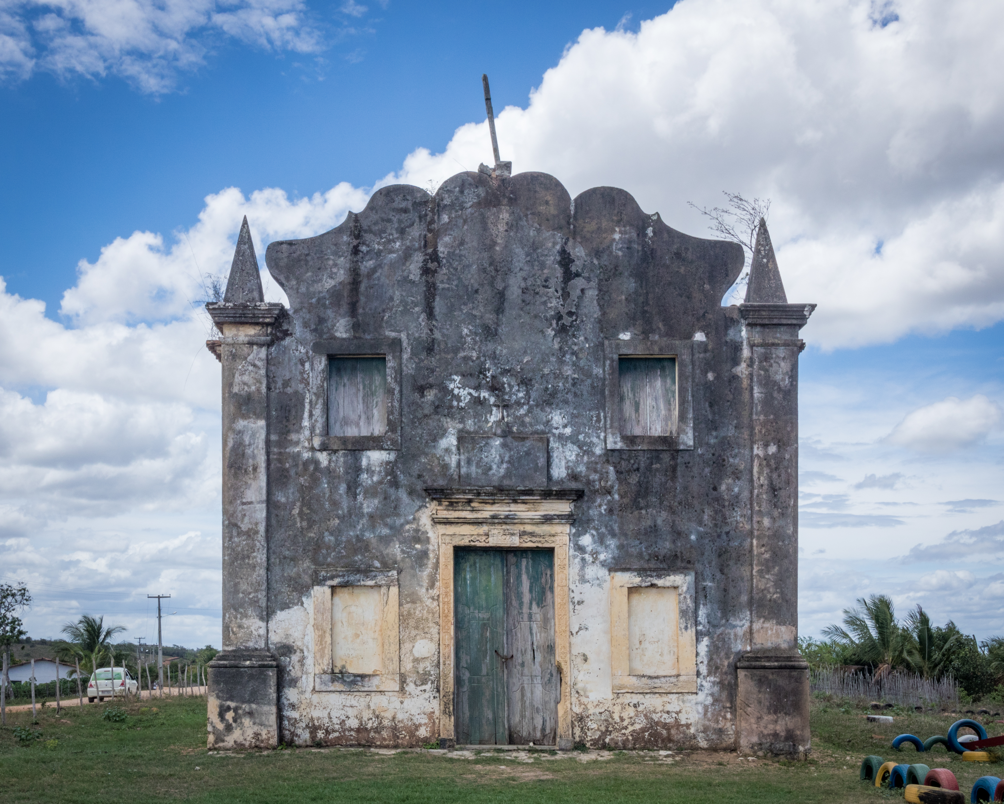 Chapel of Our Lady of the Conception of Engenho Poxim, São Cristovão, Sergipe